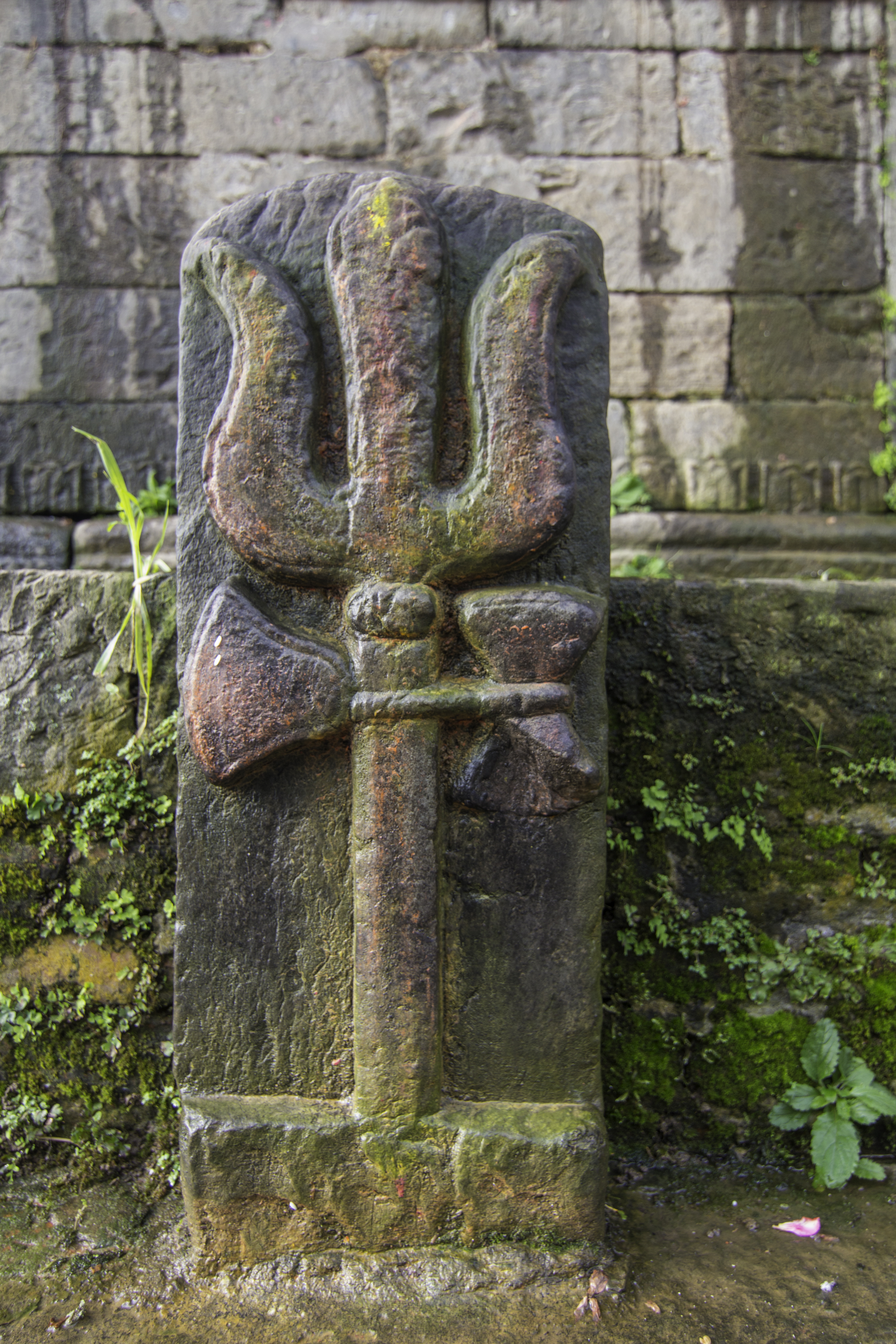 Shachi Tirtha Tribenighat at Panauti, Kabhre and its sculptures monuments.